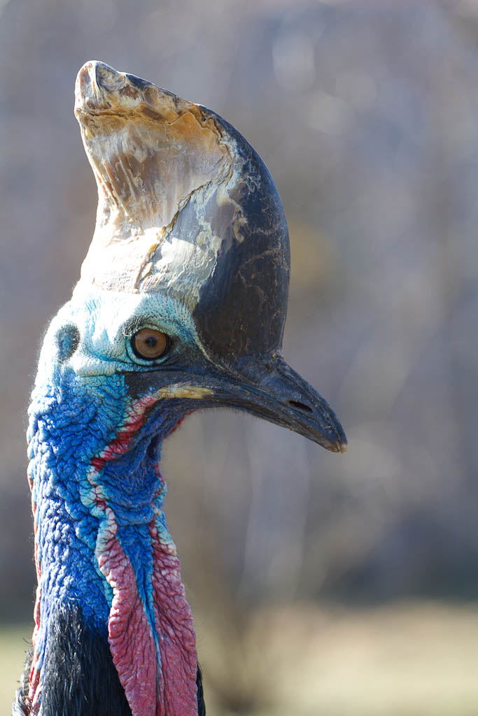 A Southern Cassowary (also known as Double-wattled Cassowary) at Prague Zoo, Czech Republic.